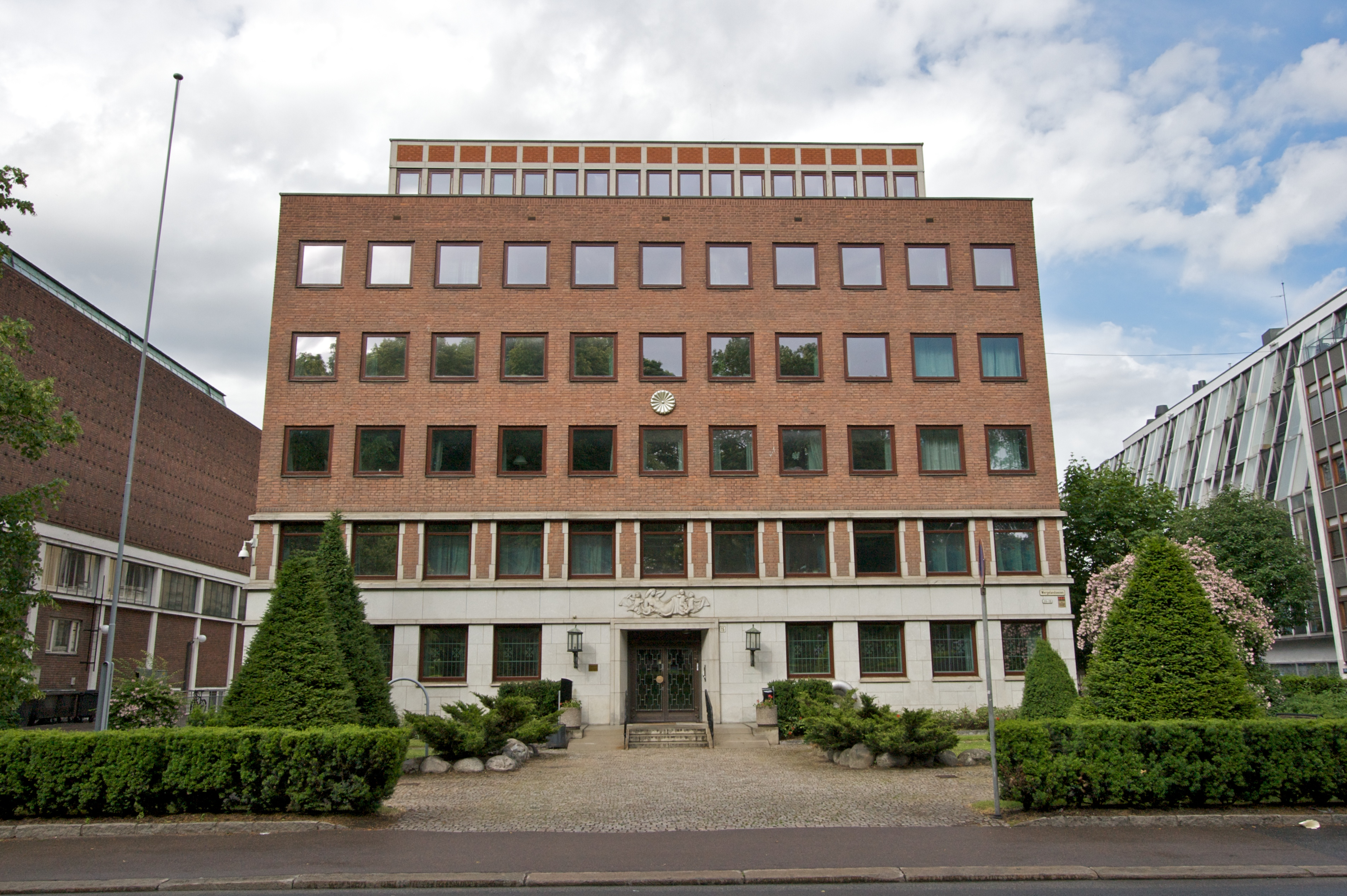 Lektorenes hus, which housed the Japanese Embassy, Oslo, Norway until March 2014.